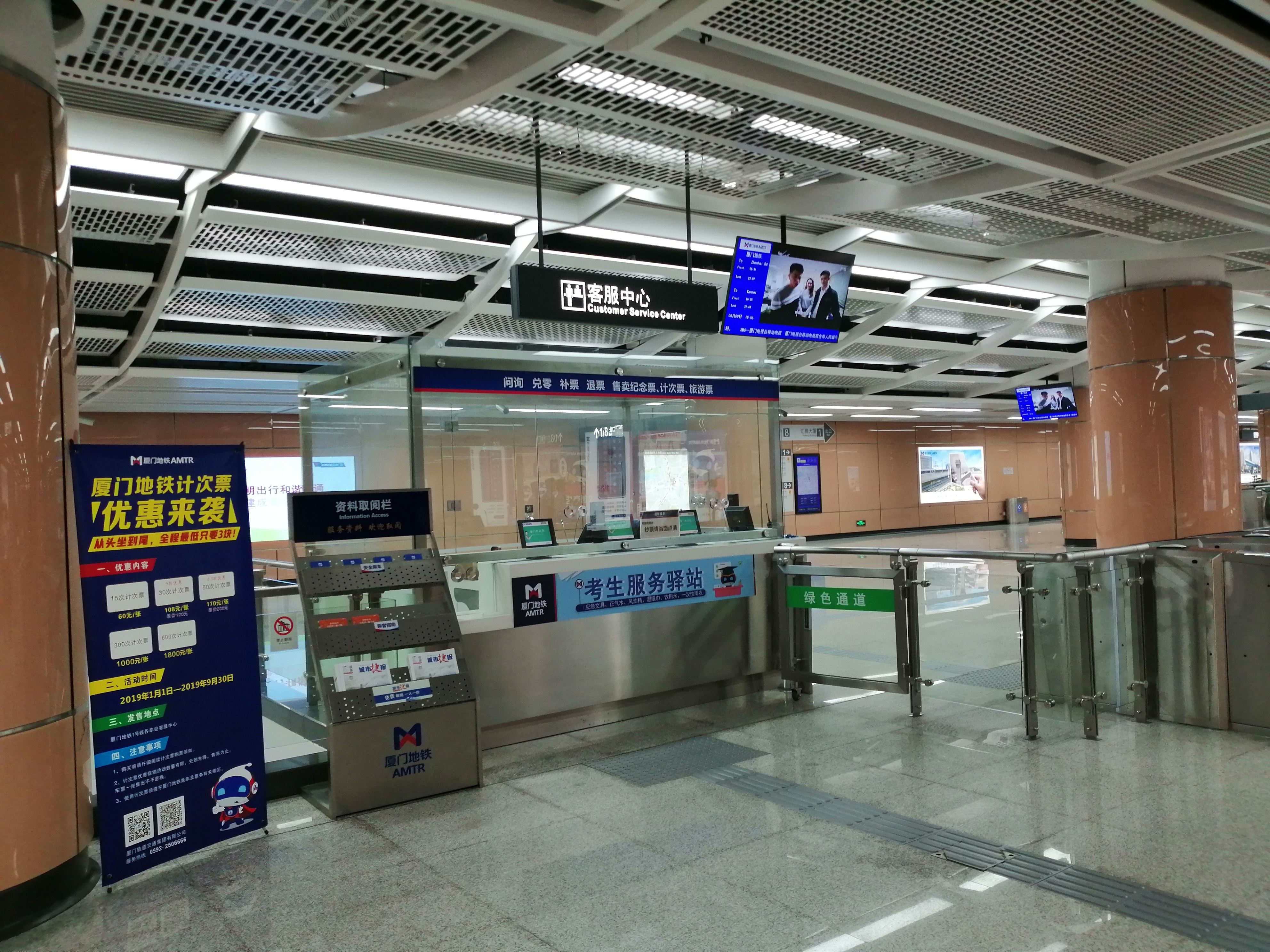 Service Center of Lücuo station 中文（中国大陆）: 吕厝站车站内的服务中心